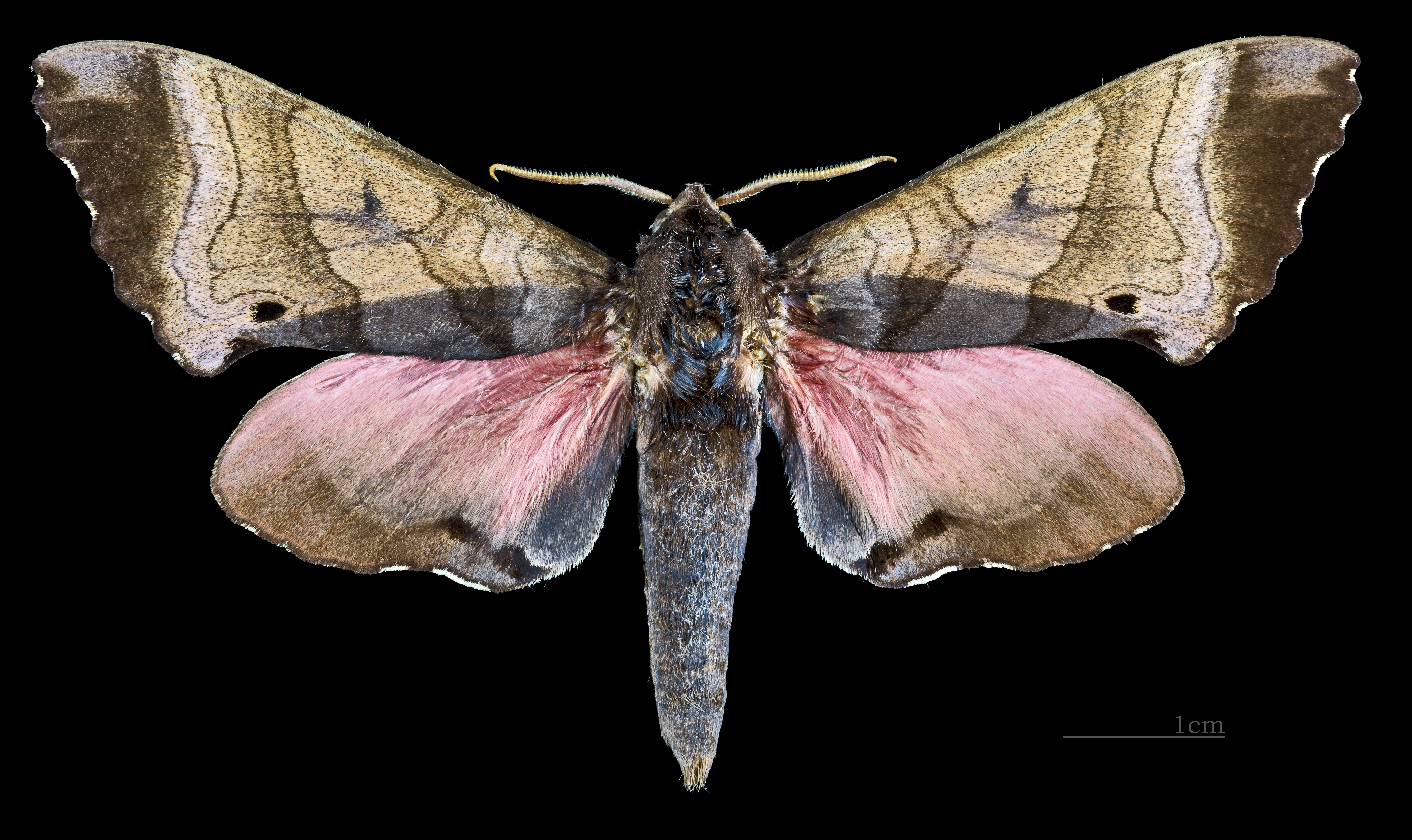 Marumba gaschkewitschii echephron - Dorsal side Collection of the Mathematician Laurent Schwartz